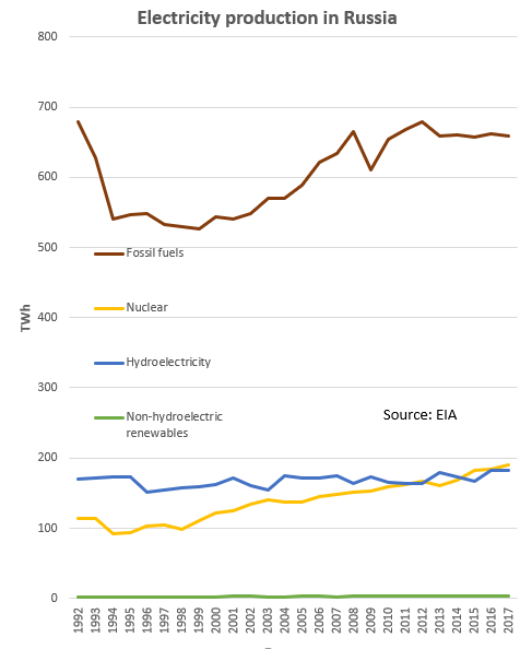 Russia Electricity production 1992-2017 (EIA data - Excel graph)